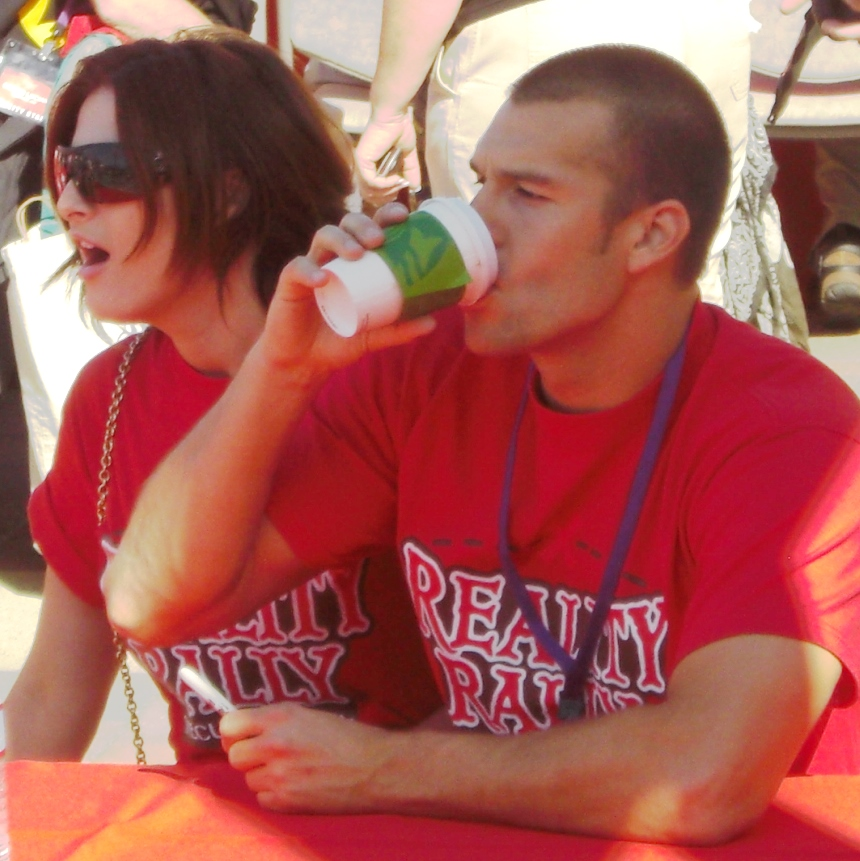 Rachel & Brendan from Big Brother take a coffe break